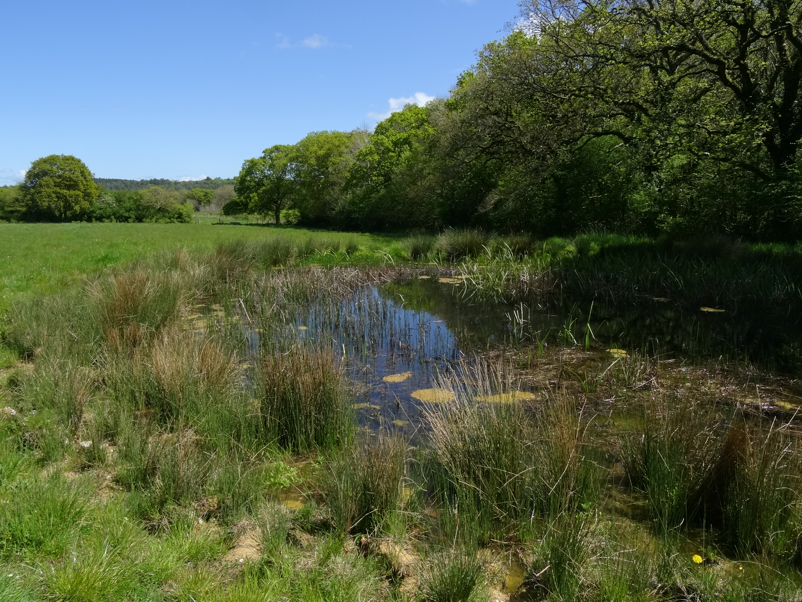 One of fifteen new ponds at Briddelsford Nature Reserve created since the year 2000 as part of the Million Ponds Project.